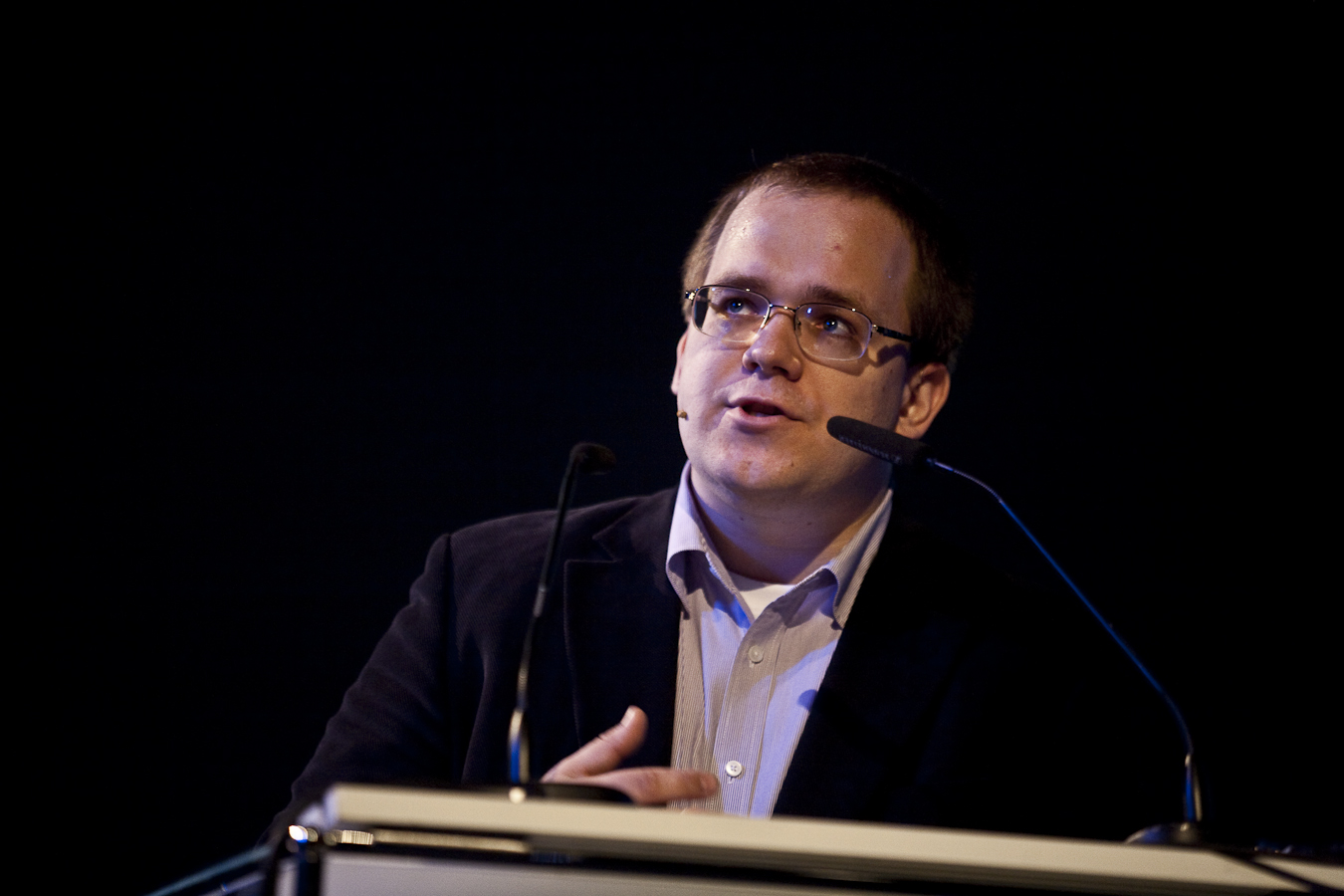 Evgeny Morozov at re:publica10 conference, Berlin